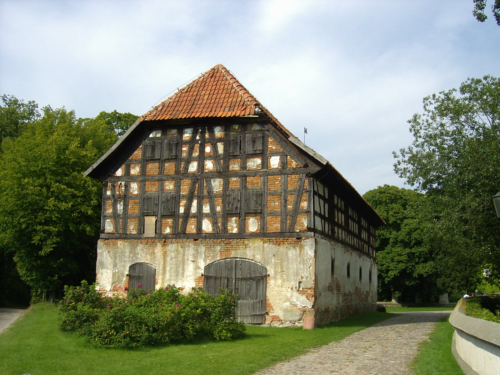 17th century granary in Galiny compound, southern side